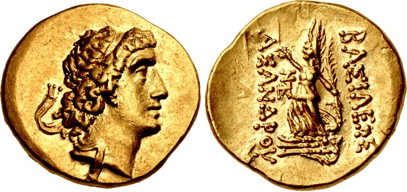 KINGS of BOSPOROS. Asander. As king, circa 43-16 BC. AV Stater (20mm, 8.22 g, 1h). Dated RY 7 (41/0 BC). Diademed head right / BAΣIΛEΩΣ AΣANΔPOY, Nike, holding wreath in extended right hand, palm frond in left, standing left on prow left; to inner left, Z (date) above monogram. Frolova & Ireland § 6, 12 corr. (monogram); Natwoka 7a; Anokhin 1322; MacDonald 197; RPC I 1849; HGC 7, 201; DCA 447. EF, underlying luster, tiny die break on reverse. Very rare. After defeating Pharnakes II in 47 BC, Asander hoped that Caesar would recognize him as king of Bosporos. Instead, in 46 BC Caesar appointed Mithradates of Pergamon, the illegitimate son of Mithradates VI Eupator and a personal friend. Asander, however, subsequently defeated and killed Mithradates. To support his claim to the throne, Asander married Dynamis, the daughter of Pharnakes II, but for the first four years of his reign, he claimed the title ‘archon’ only, rather than that of ‘basileus.’ The reason for this may be that as Rome had formally recognized the archon Pharnakes II as king, Asander was hoping they would do the same on his behalf – a hope confirmed by Octavian in 43 BC. Consequently, all of Asander’s regnal dates are reckoned from his first year as archon (circa 47/6 BC).